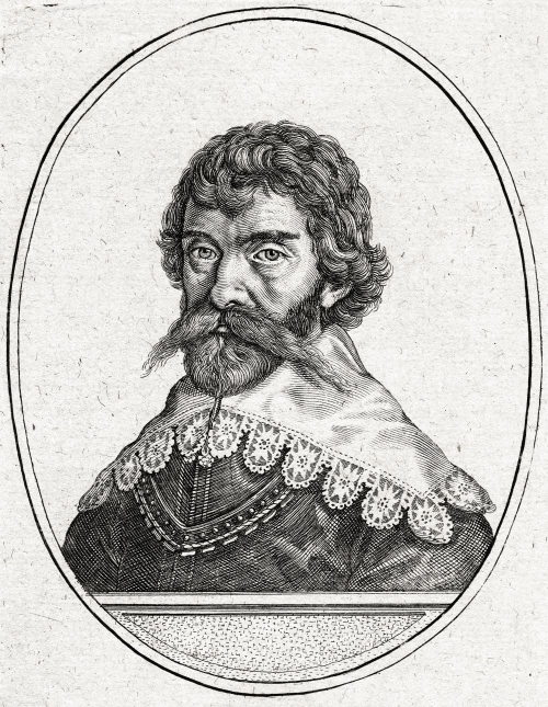 Krzysztof Arciszewski